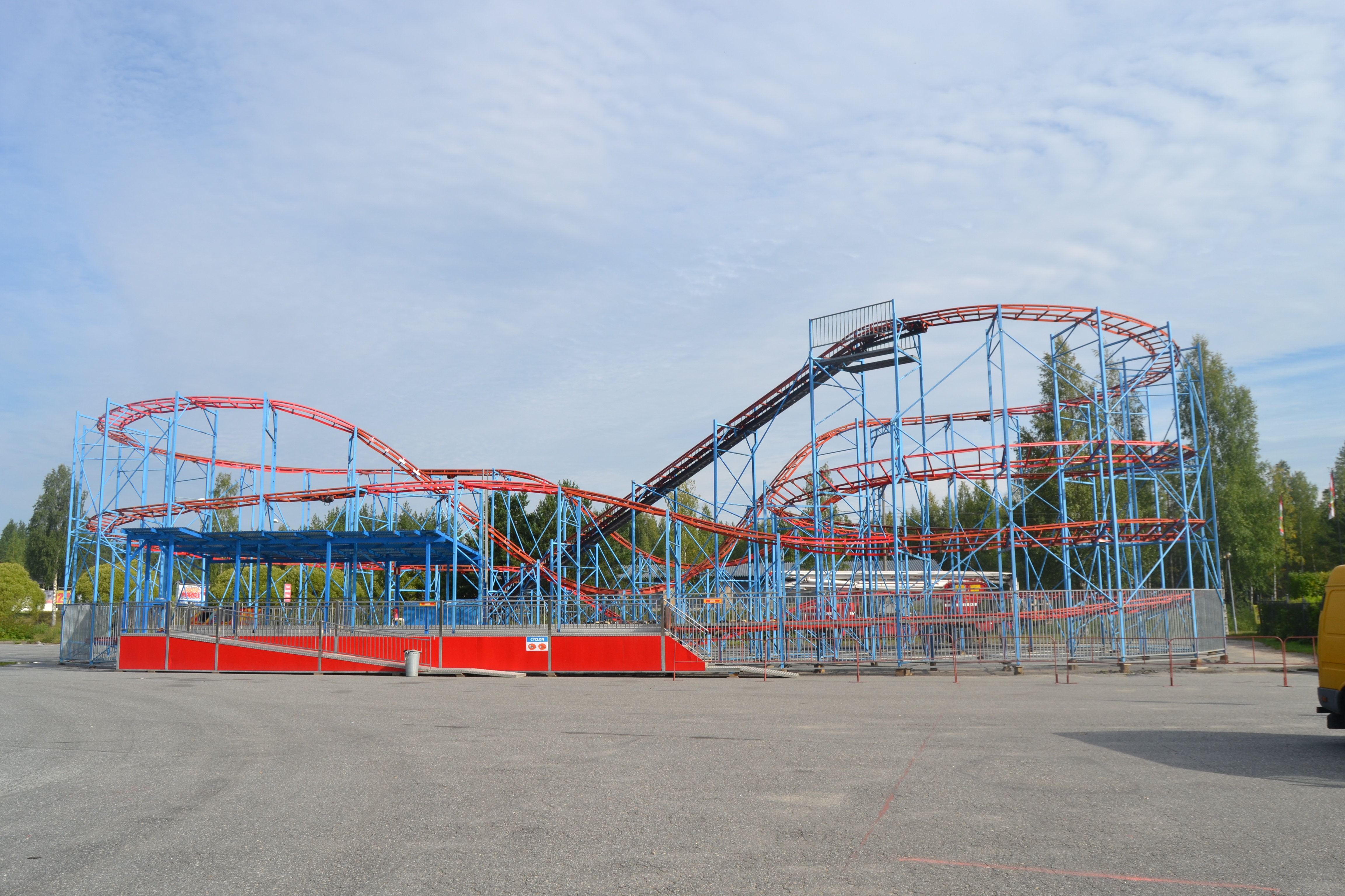 Cyclon roller coaster at Nokkakivi amusement park in Lievestuore, Laukaa, Finland